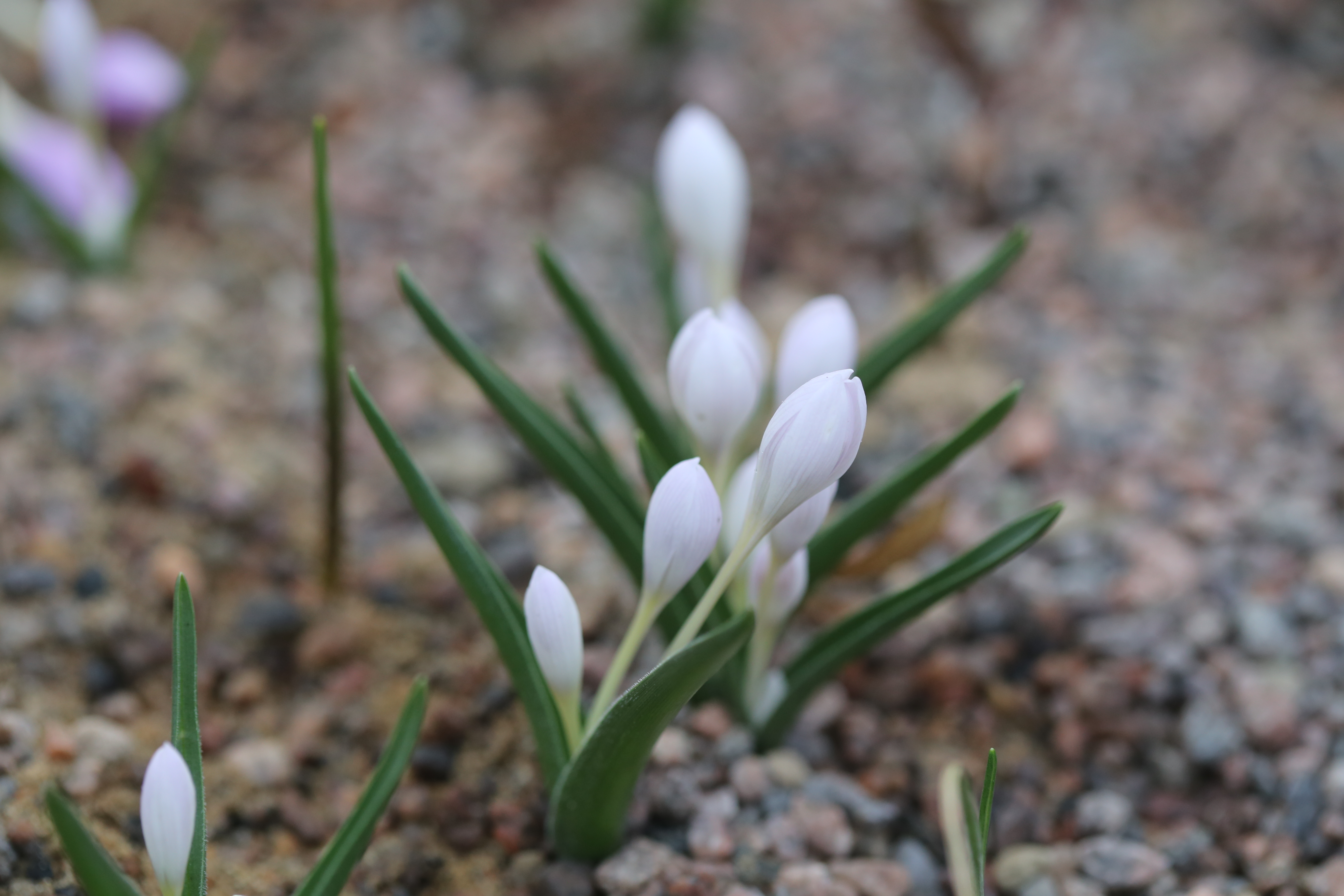 Colchicum doerfleri at Gothenburg botanical garden in 2015. Plant id: 1988-0282 p W; s & Z 88-080